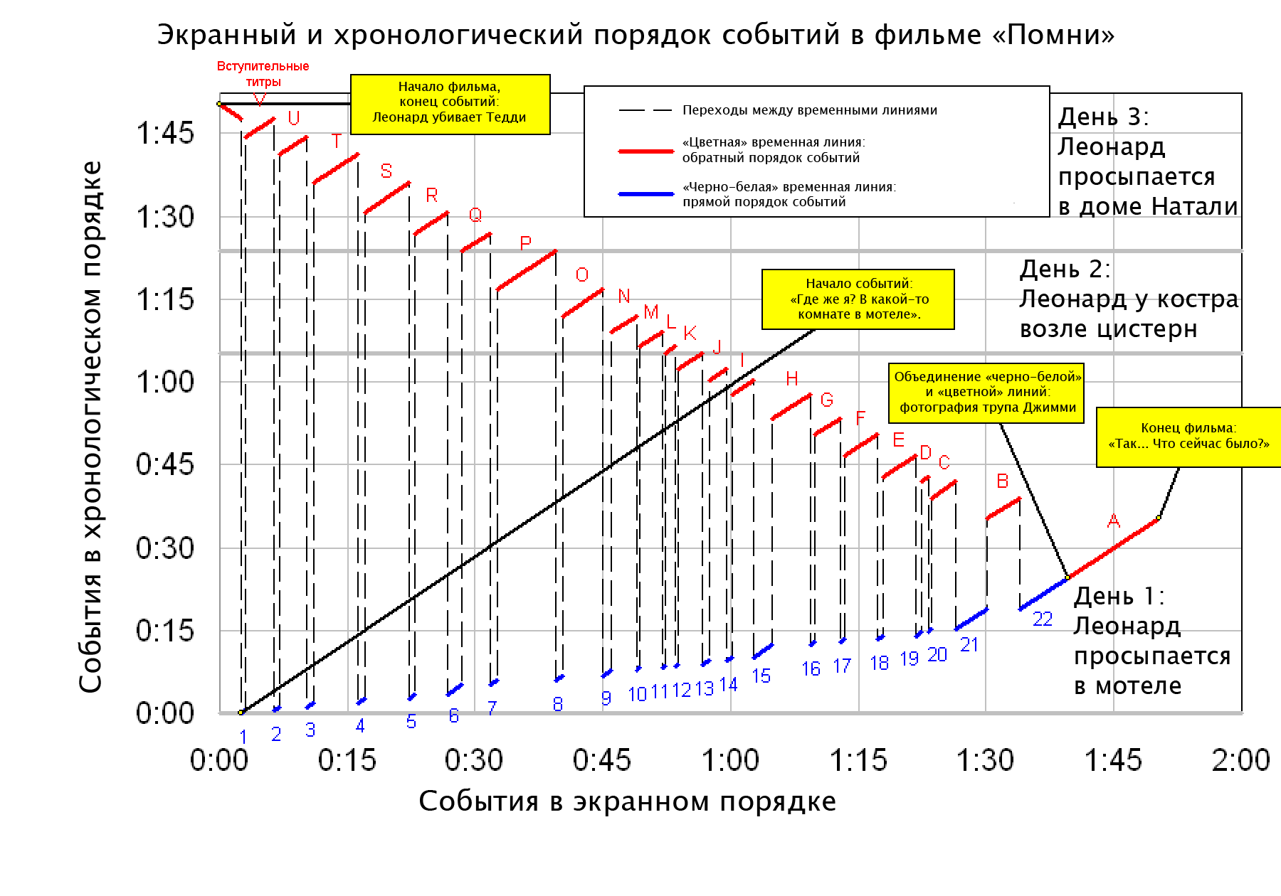 Plot of key events in film Memento. Fabula / storyline / chronological order versus the sujet / plot / movie order of scenes. The movie alternates between showing black-and-white snippets of the hotel room phone call (in correct temporal order, the blue lines) and in-color snippets of the main action (each one ending where the preceding snippet began, the red lines).